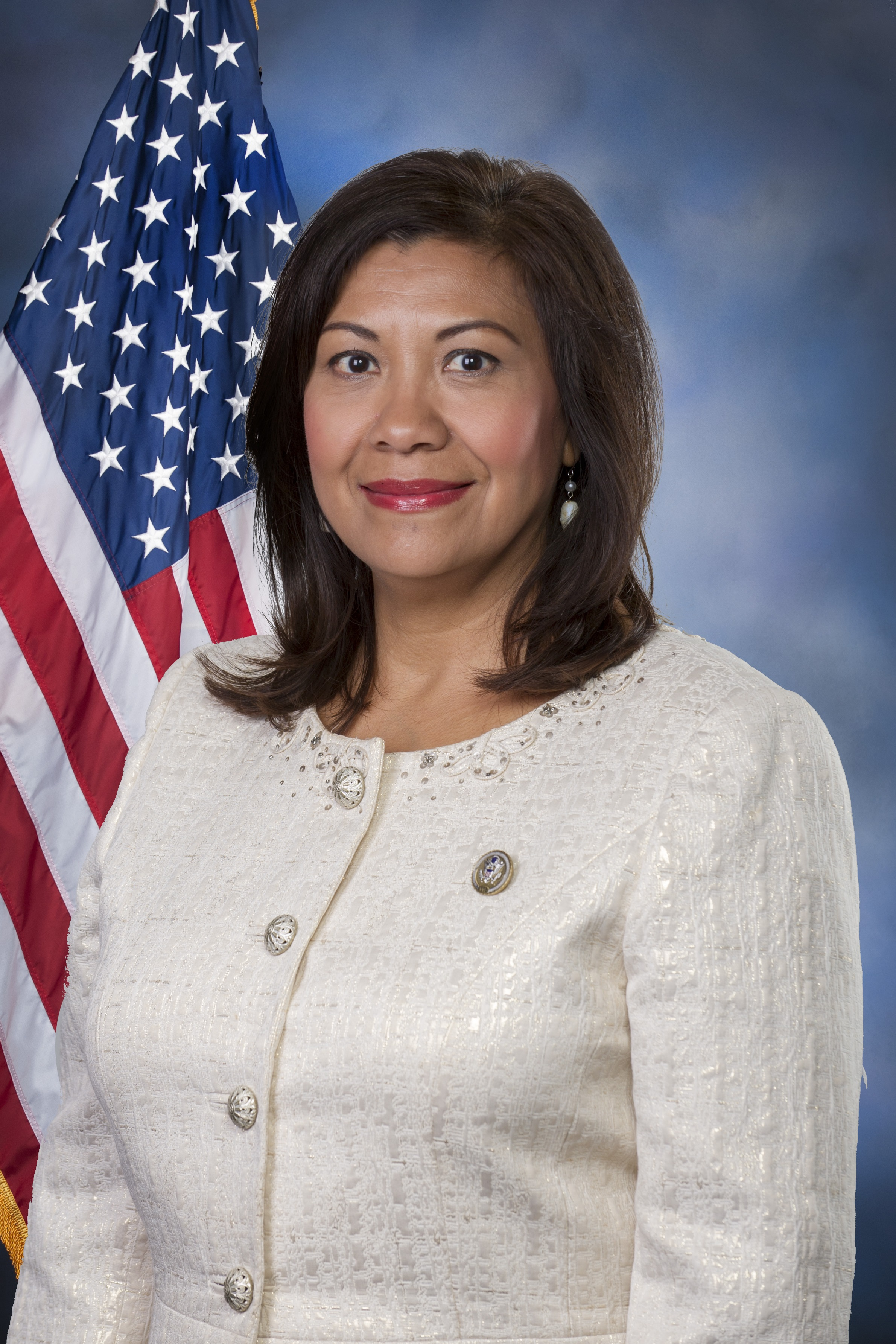 Norma Torres official photo